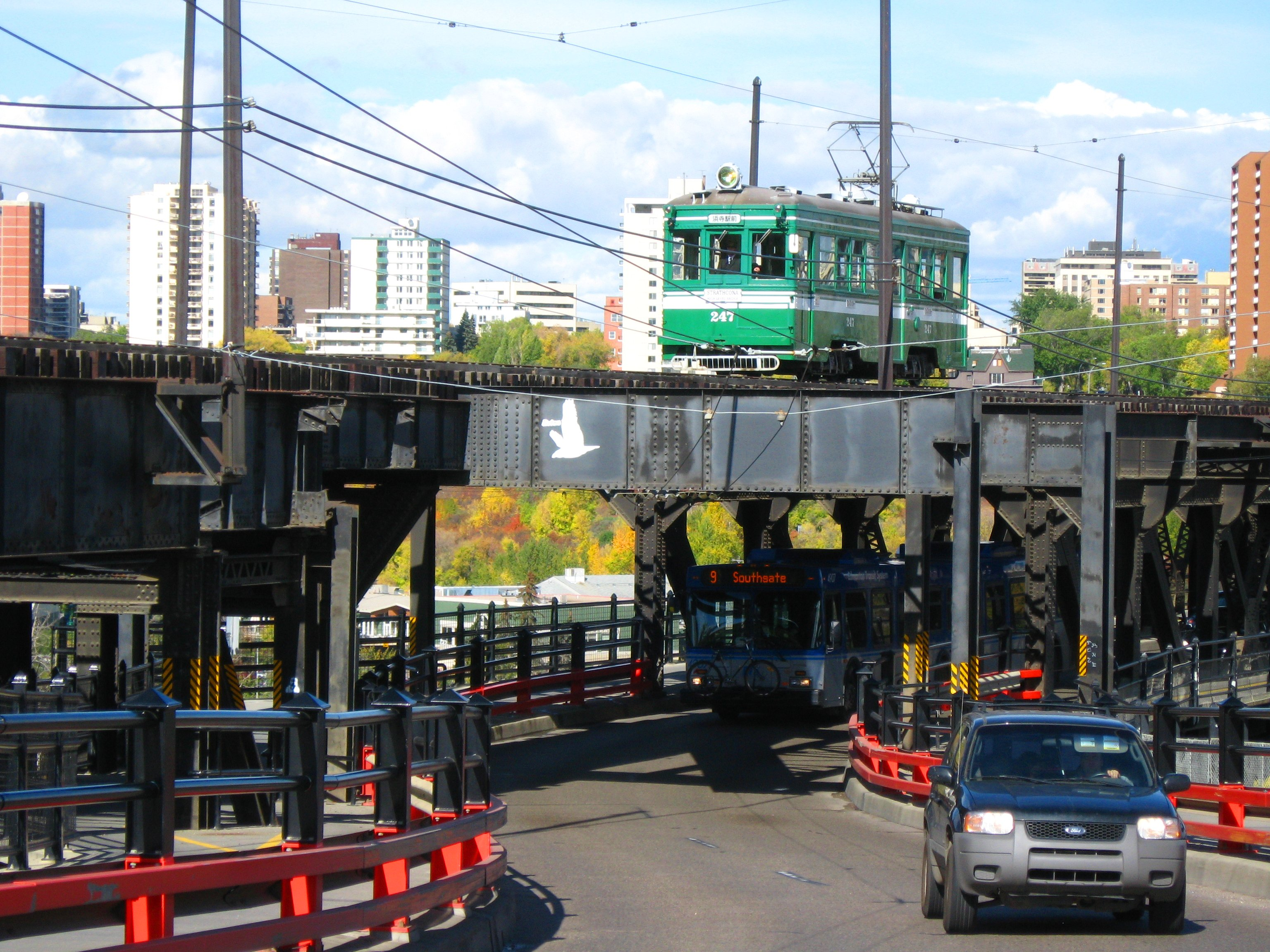 Two Levels